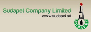 The logo of Sudapet